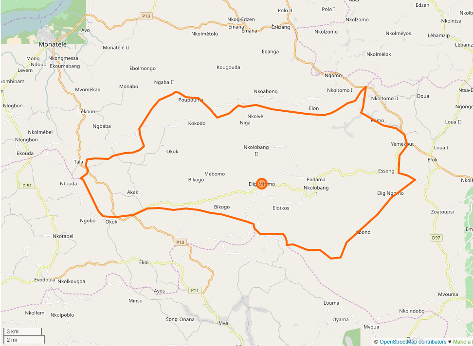 Elig-Mfomo in Cameroon ː city boundaries with OSM. This map may be incomplete, and may contain errors. Don't rely solely on it for navigation.